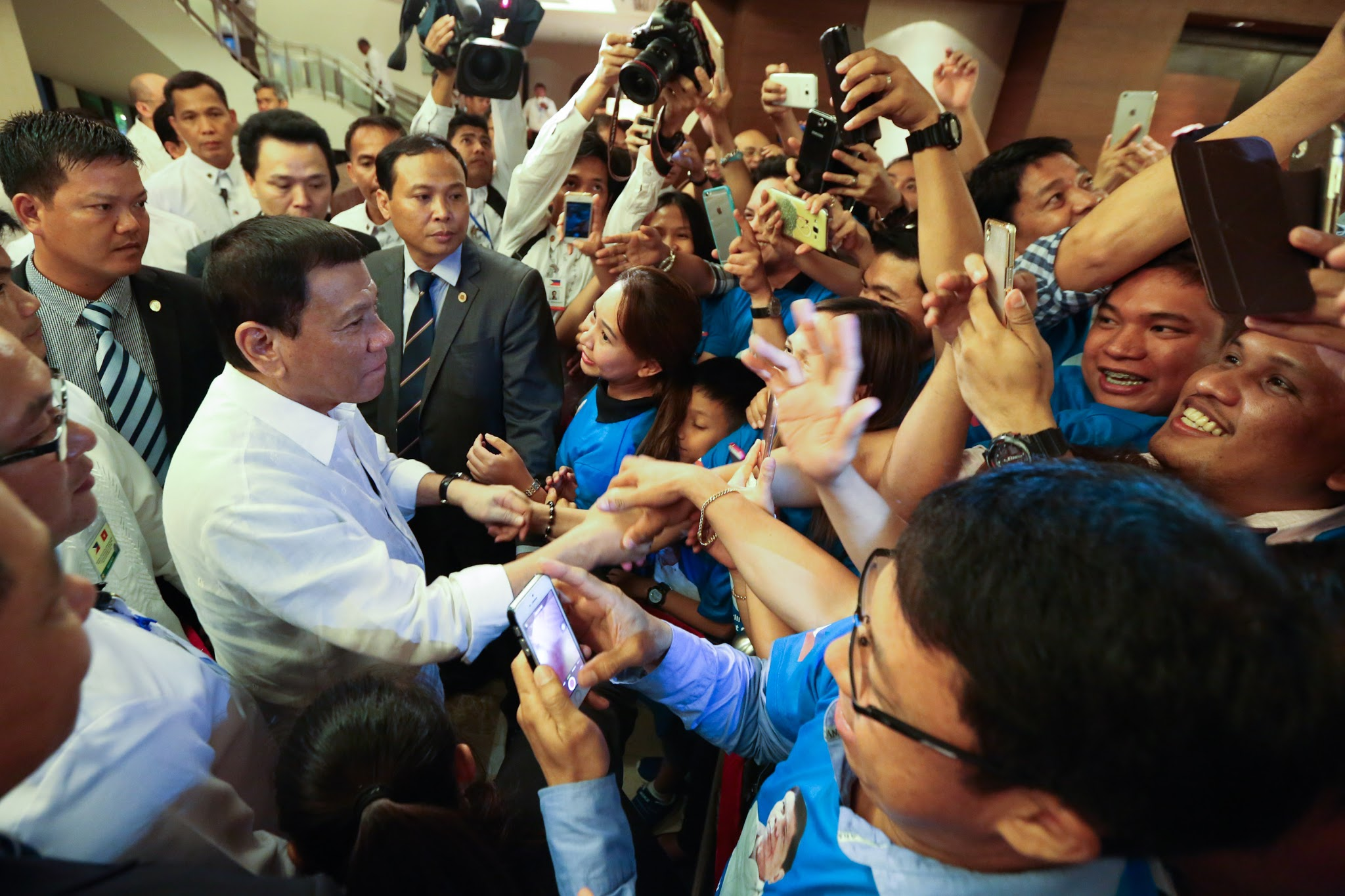 President Rodrigo Duterte is greeted by overseas Filipinos during his official visit to Vietnam on September 28. KING RODRIGUEZ/PRESIDENTIAL PHOTO